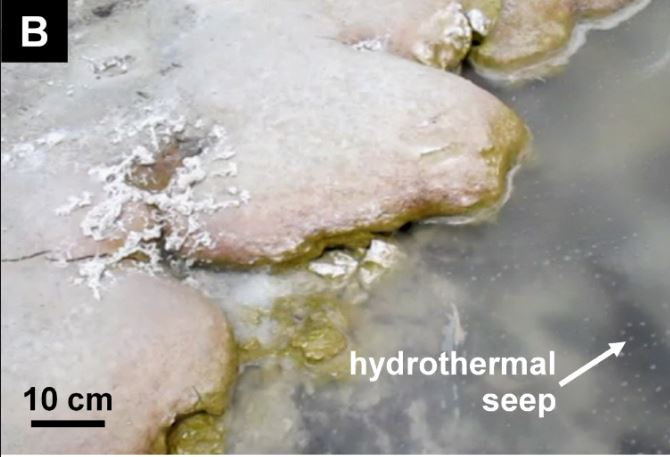 Stromatolite growing on a high-altitude Andean plateau at the base of the volcano Socompa.